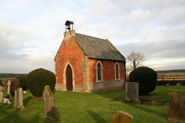 St.Andrew's church, Apley. Barely a church, more a cemetery chapel. You could probably fit the entire population of Apley inside though !